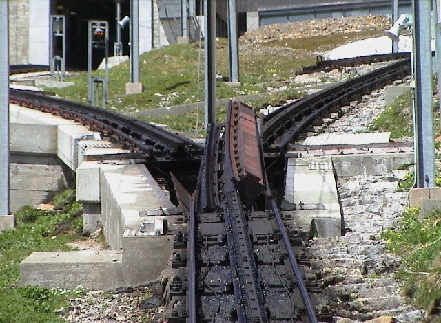 A rotary switch in operation at the summit station of the Pilatus Railway